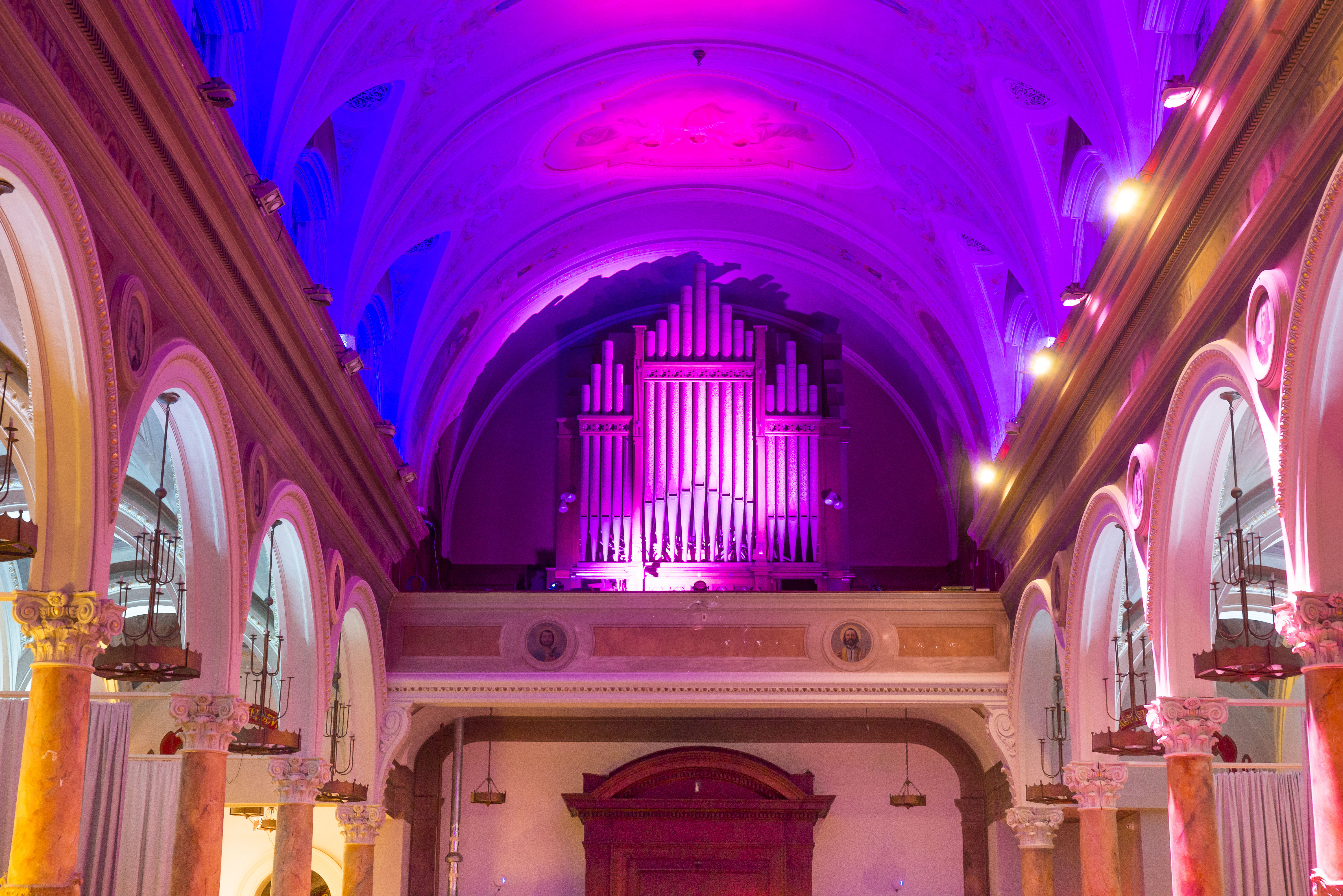 A 24 set pipe mechanical Hook and Hastings organ